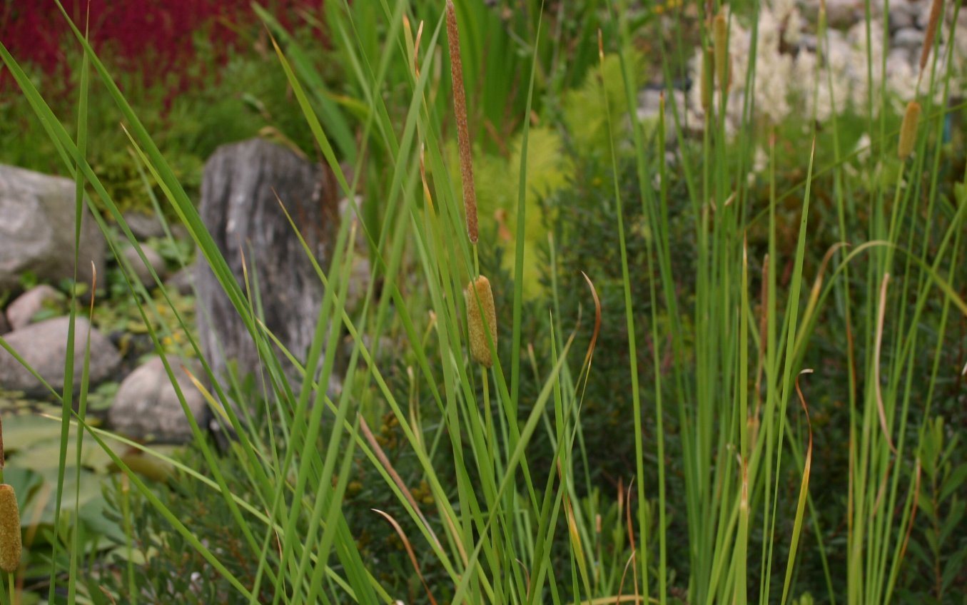 Typha minima: Male flowers at the upper end and female flowers below. Photo: Sten Porse